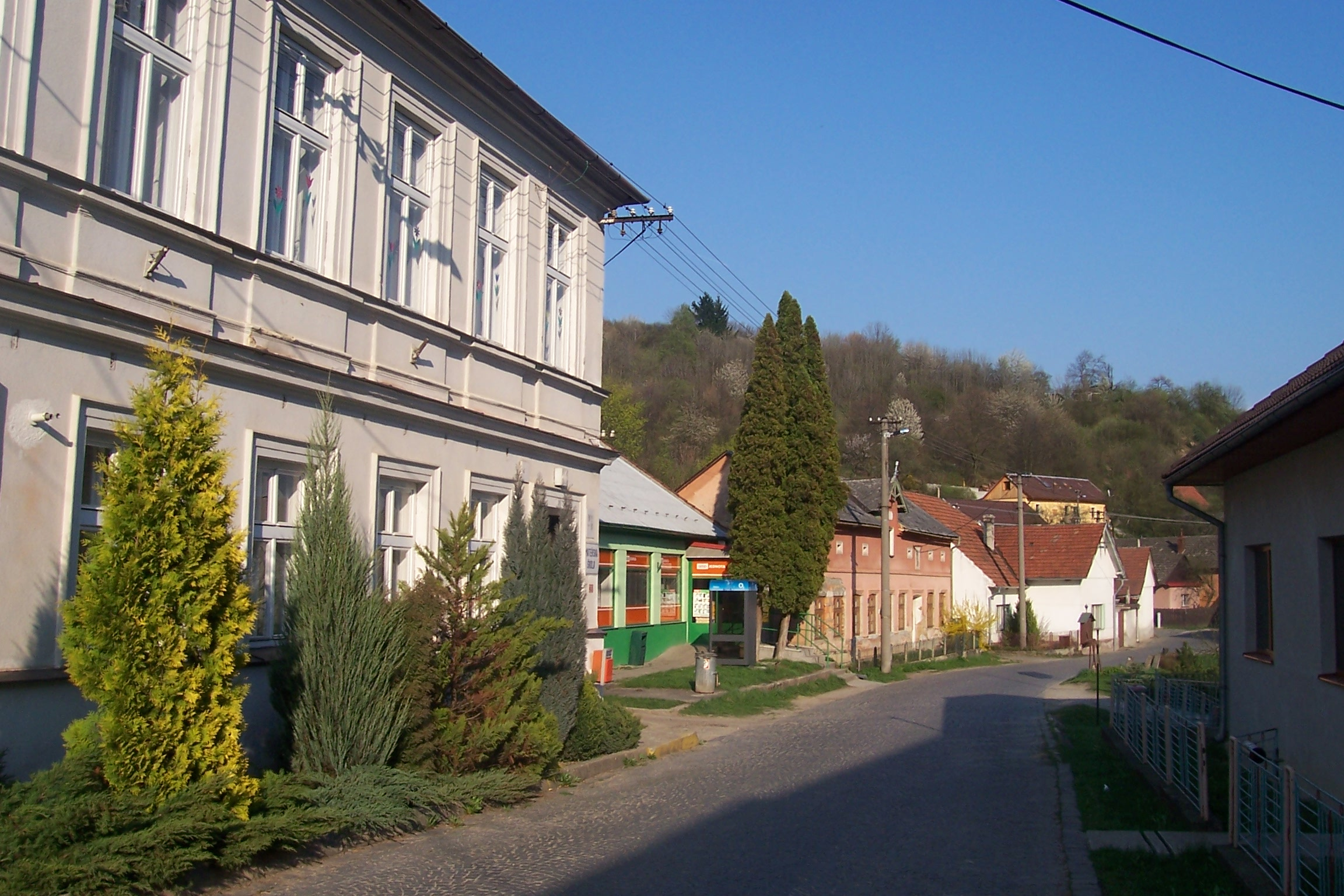 Košíky in Uherské Hradiště District, Czech Republic. Main street, former school and shop.